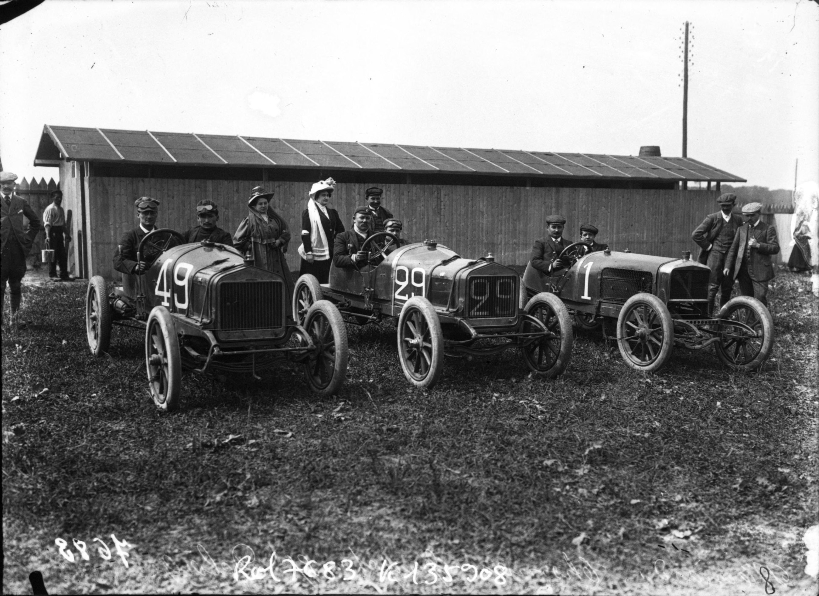 Lucas-Bonnard (#49), René Thomas (#29) and Albert Guyot (#1) in Delages at the 1908 Grand Prix des Voiturettes at Dieppe.